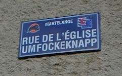 Street sign in Martelange (Maartel, BE), bilingual in French/Luxembourguish («rue de l'église/umfockeknapp»). Picture taken by L. Mahin in 2004